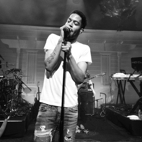 Kid Cudi performing at The Kaul Haus in Toronto Canada